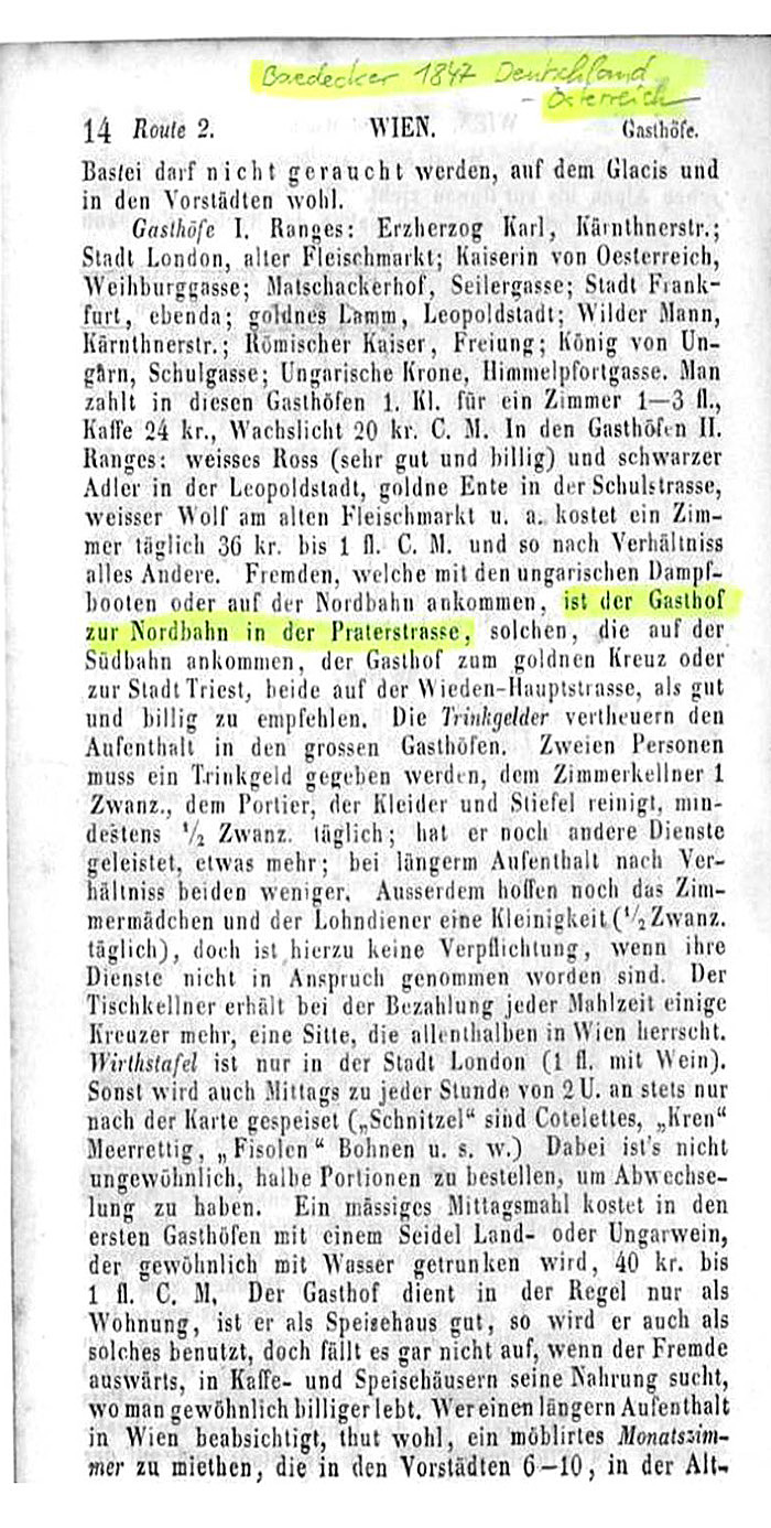 The Hotel Nordbahn mentioned in the Baedeker Guide for Austria and Germany in 1847